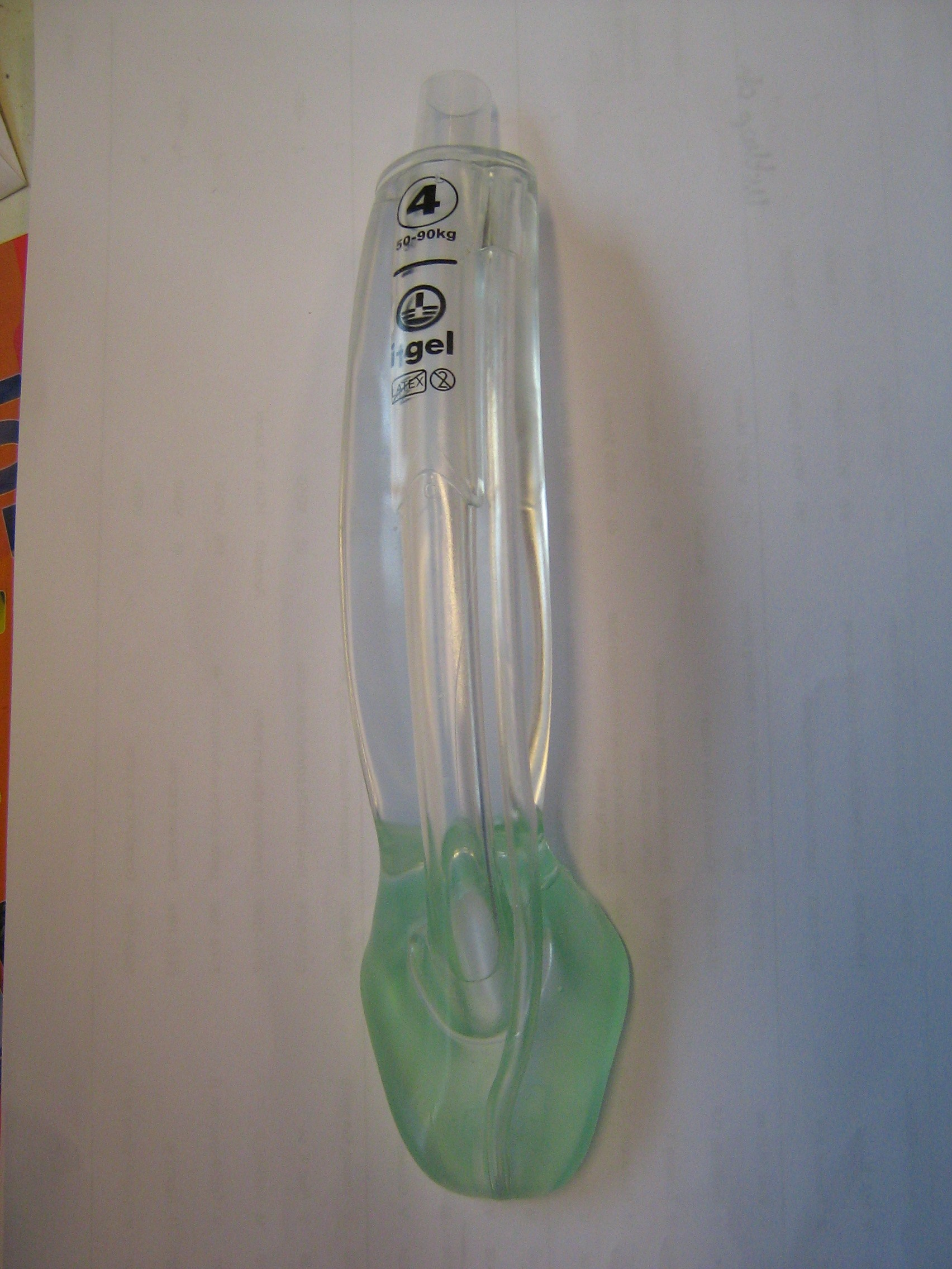 laryngeal mask i-gel Intersurgical Company. Used in anesthesia. Larynxmasker met gelei. Gebruikt in de anesthesie.